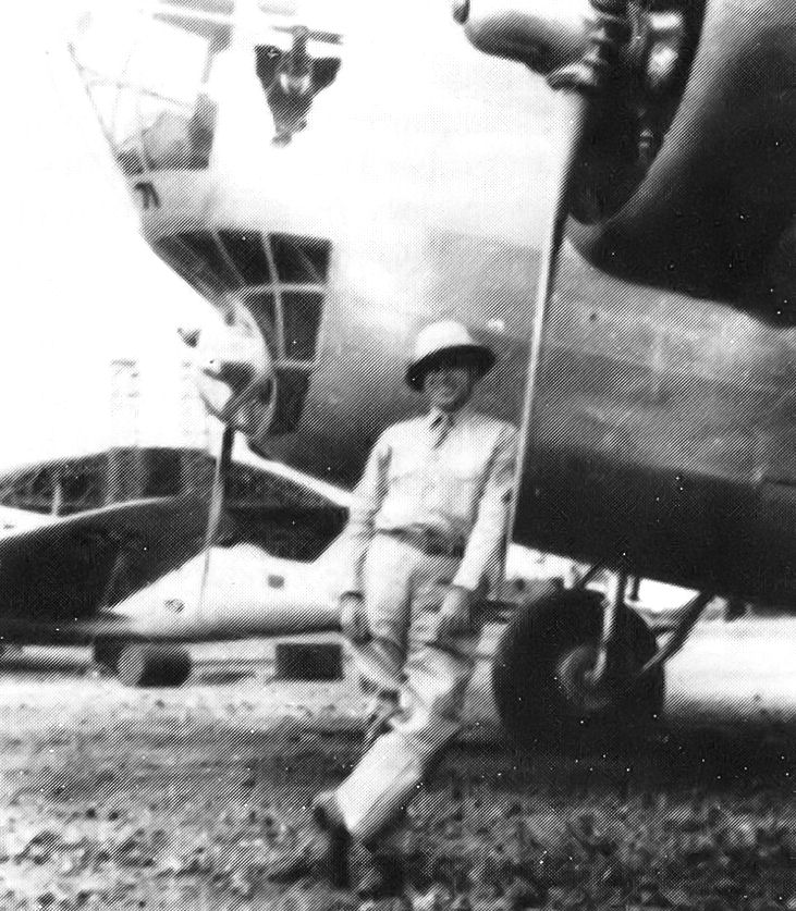 35th Bombardment Squadron B-18 1943